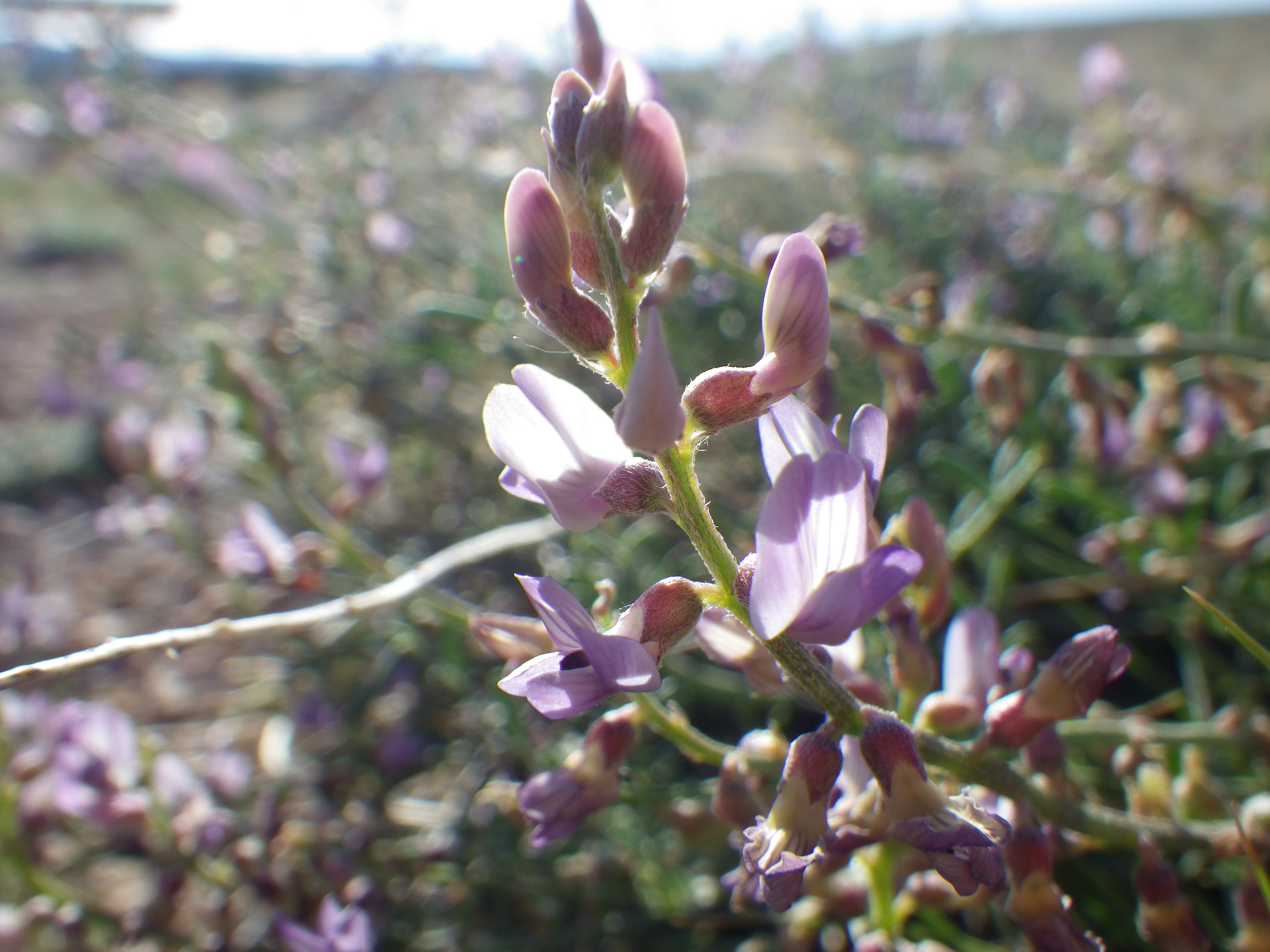 Both the purplish flowers and fruits (the pedicel of which bends downward with maturity) are distinctively small in overall size.